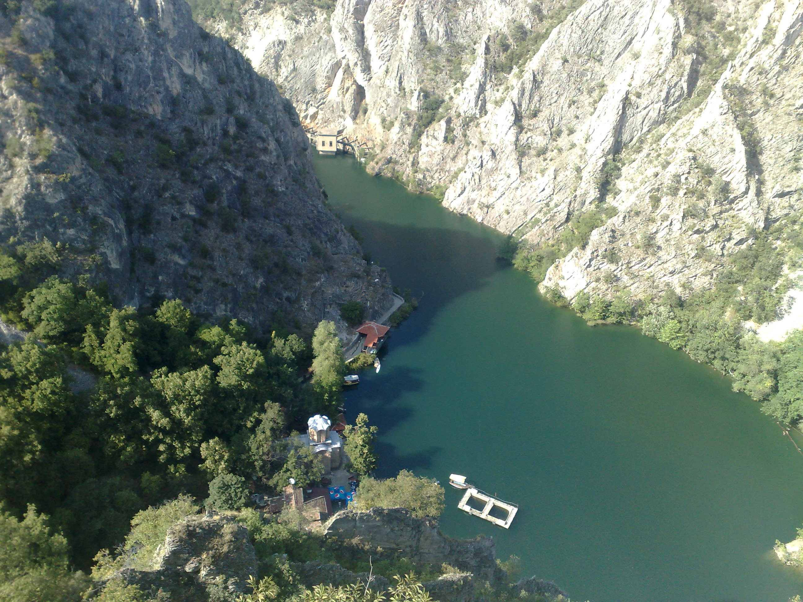 View of the church of St. Andrew from King Marco's Gates, Matka, Macedonia